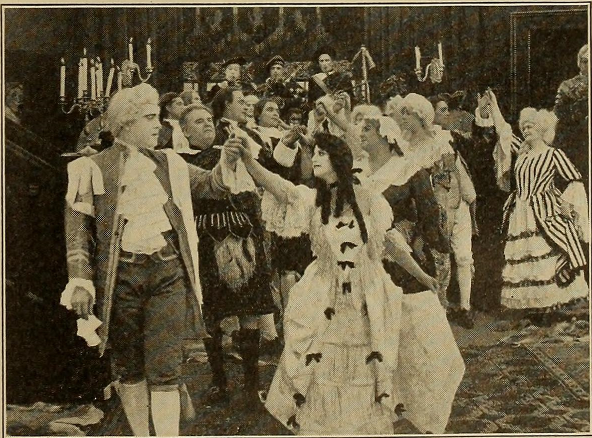 A still image from Shon the Piper, a lost film from 1913, that shows the cast. This image appeared in the October 4, 1913 issue of Motography.